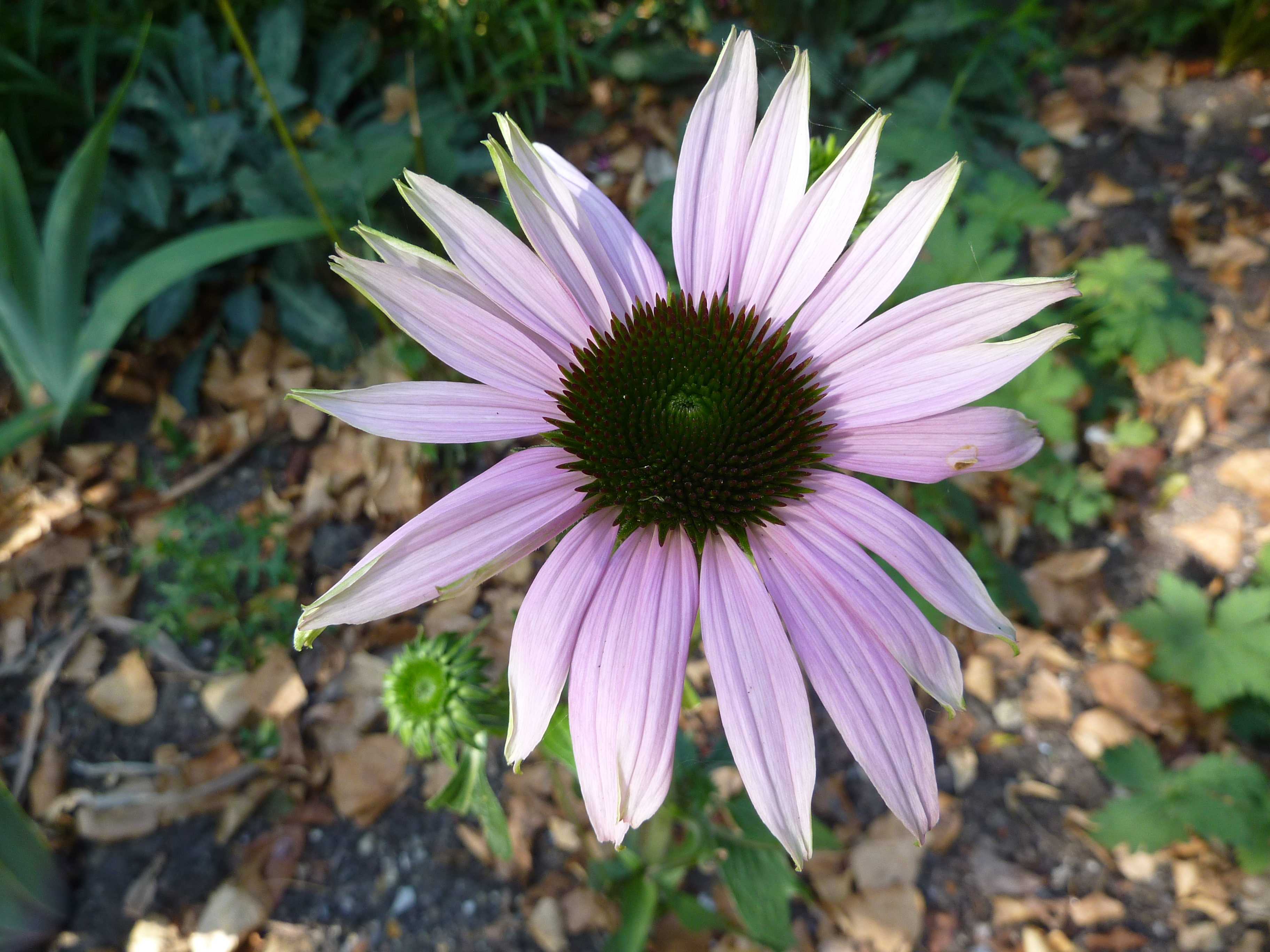 Echinaceae purpurea "Rubinstern" in Cambridge University Botanic Garden